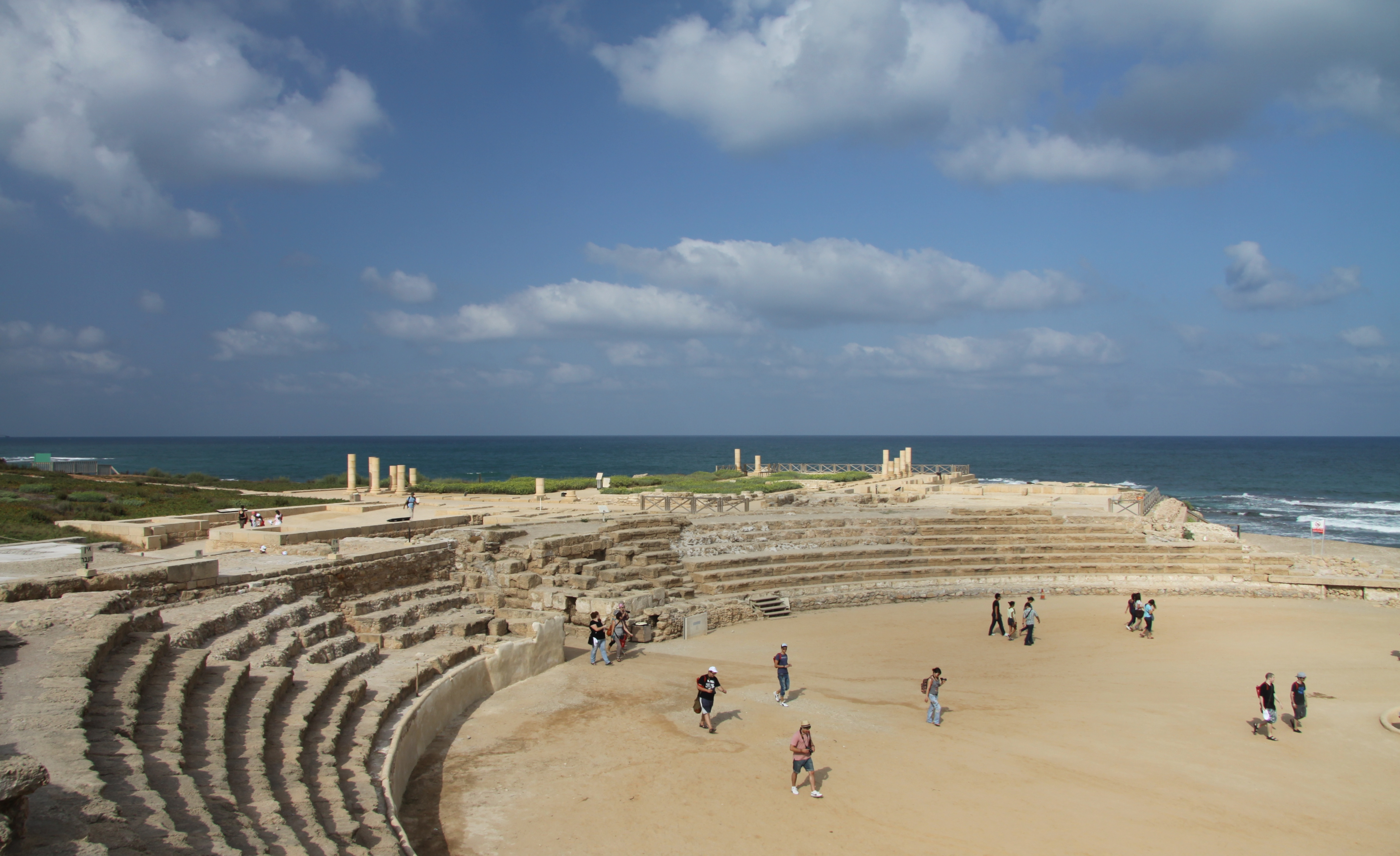 Caesarea Maritima Hippodrome in Israel